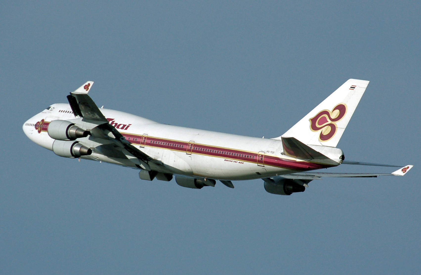 Thai Airways International Boeing 747-400 (HS-TGR) takes off from London Heathrow Airport, England.